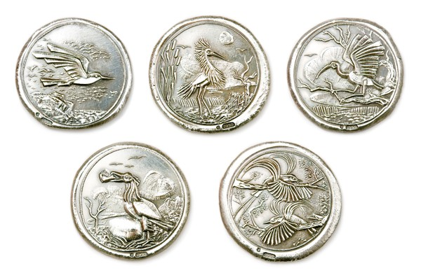 Laszlo Szlavics Jr.: Birds, silver, struck, 45mm, 1988